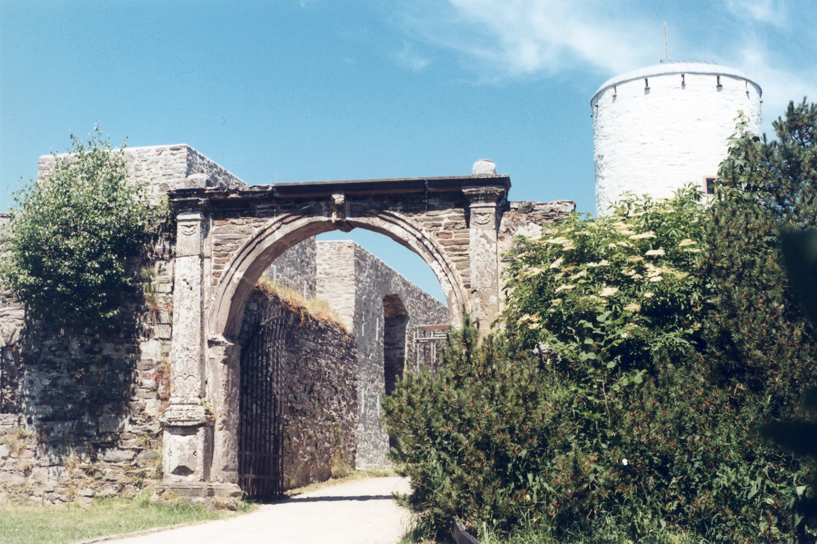 Reifferscheid Castle in Hellentahl, gate